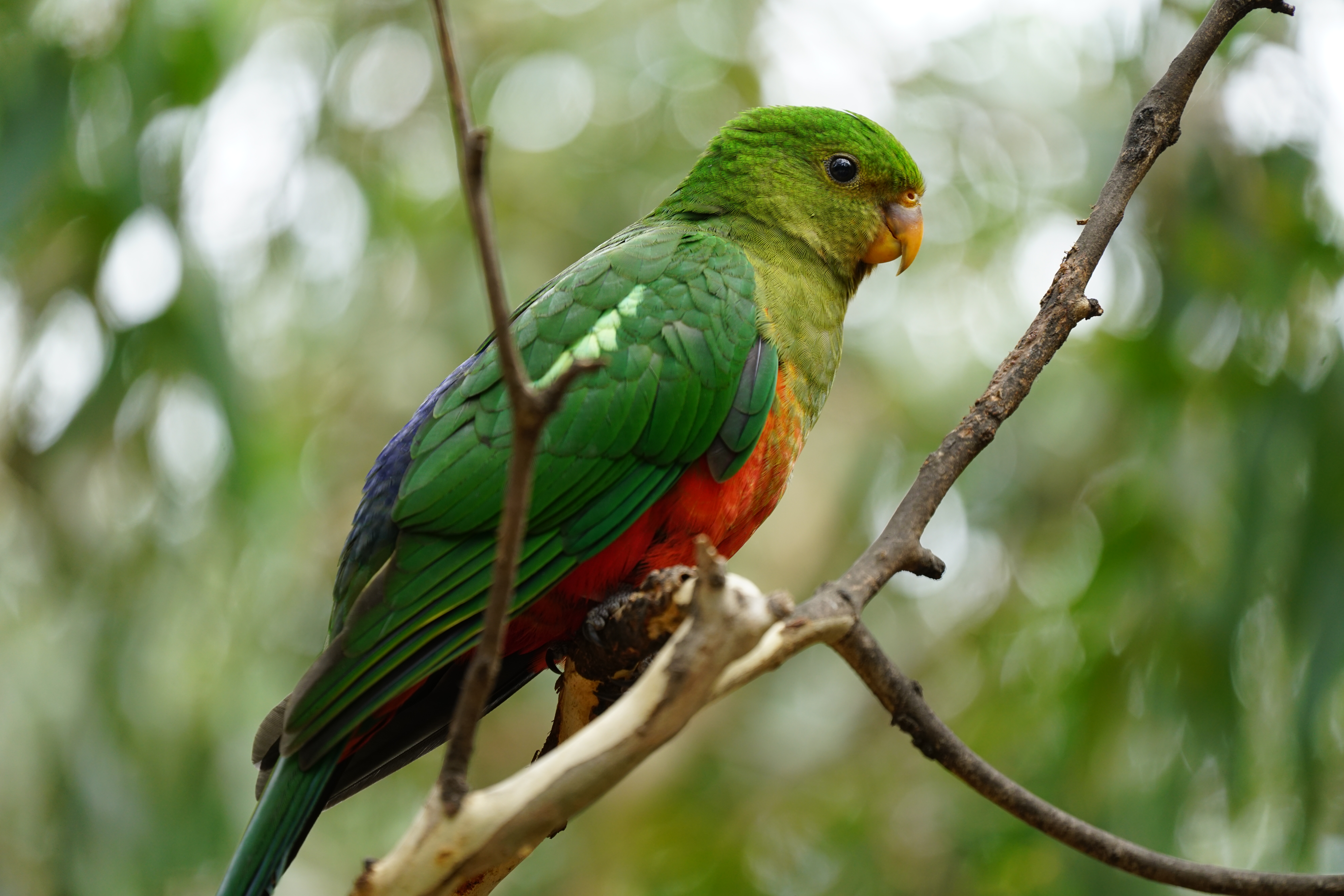 Female Australian King Parrot sitting on a branch in Kennett River, Victoria, Australia